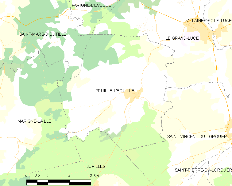 Map of French municipality